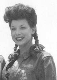 Black and white photo taken by World War II veteran Jack Heyn of Anne Triola at Hollandia, Dutch New Guinea (cropped from larger photo).